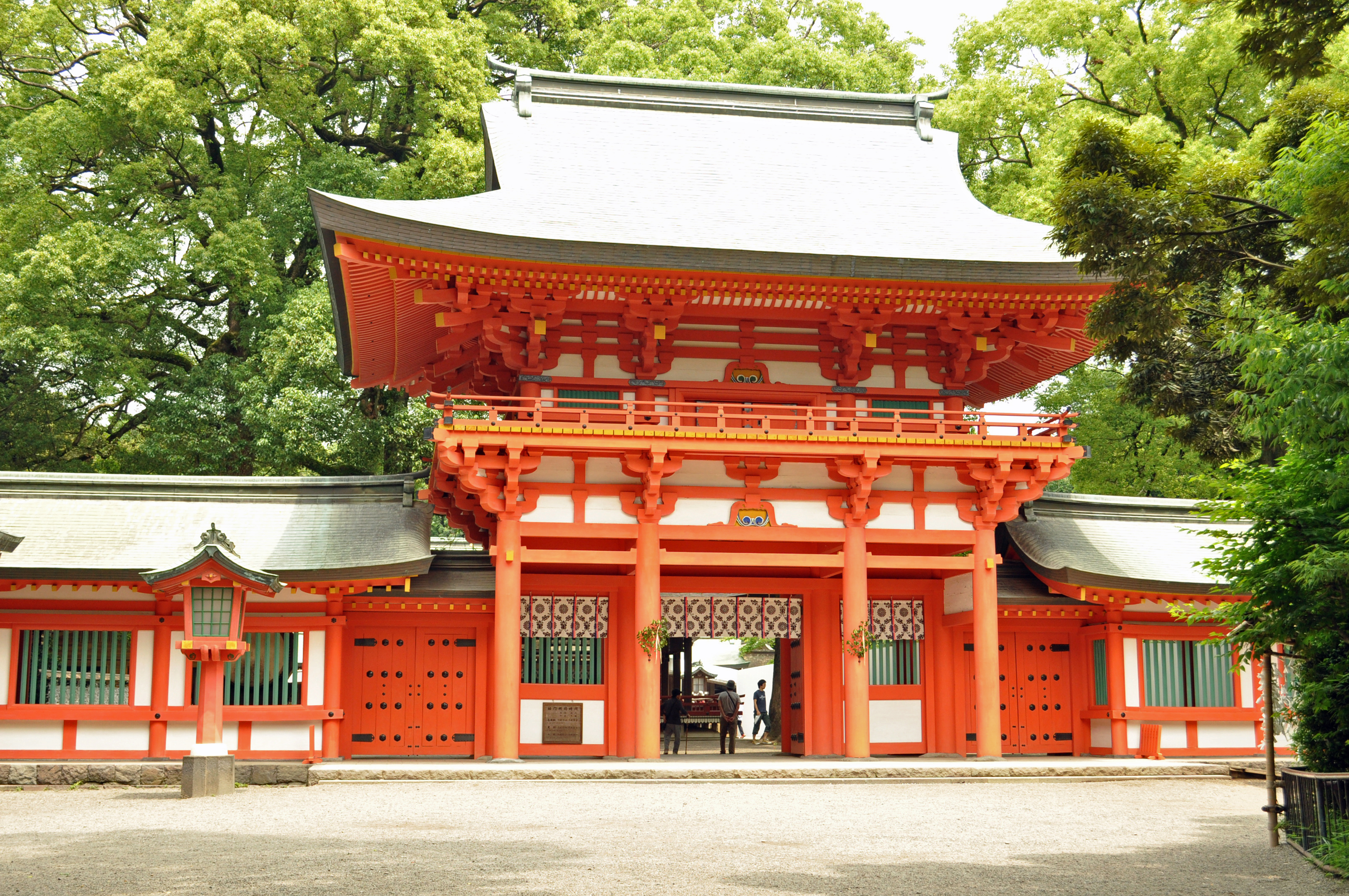 Gateway of the Hikawa shrine"roumon"